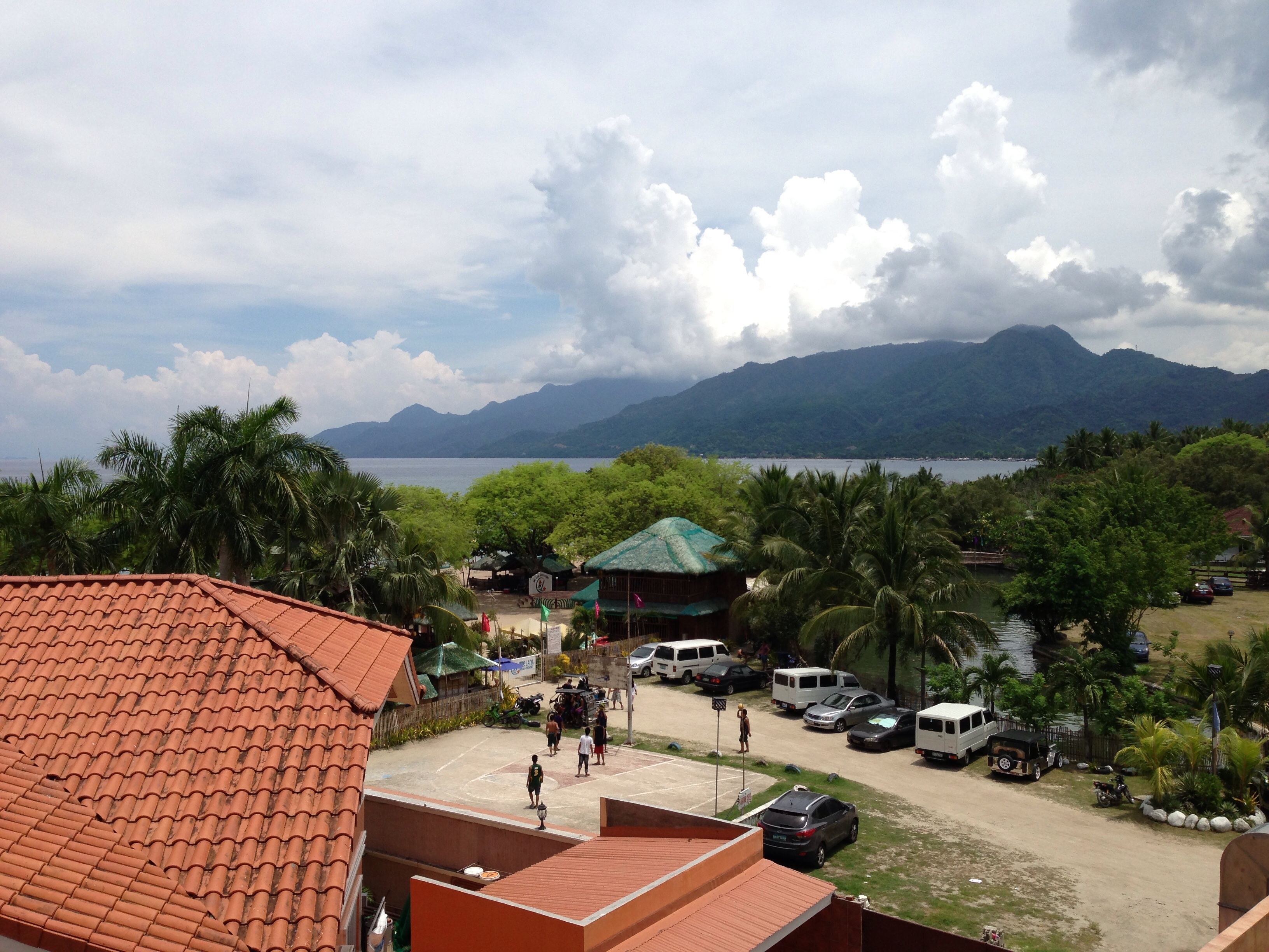 View of Tayabas Bay and the Lobo Mountain Range from Barrio Laiya, San Juan, Batangas